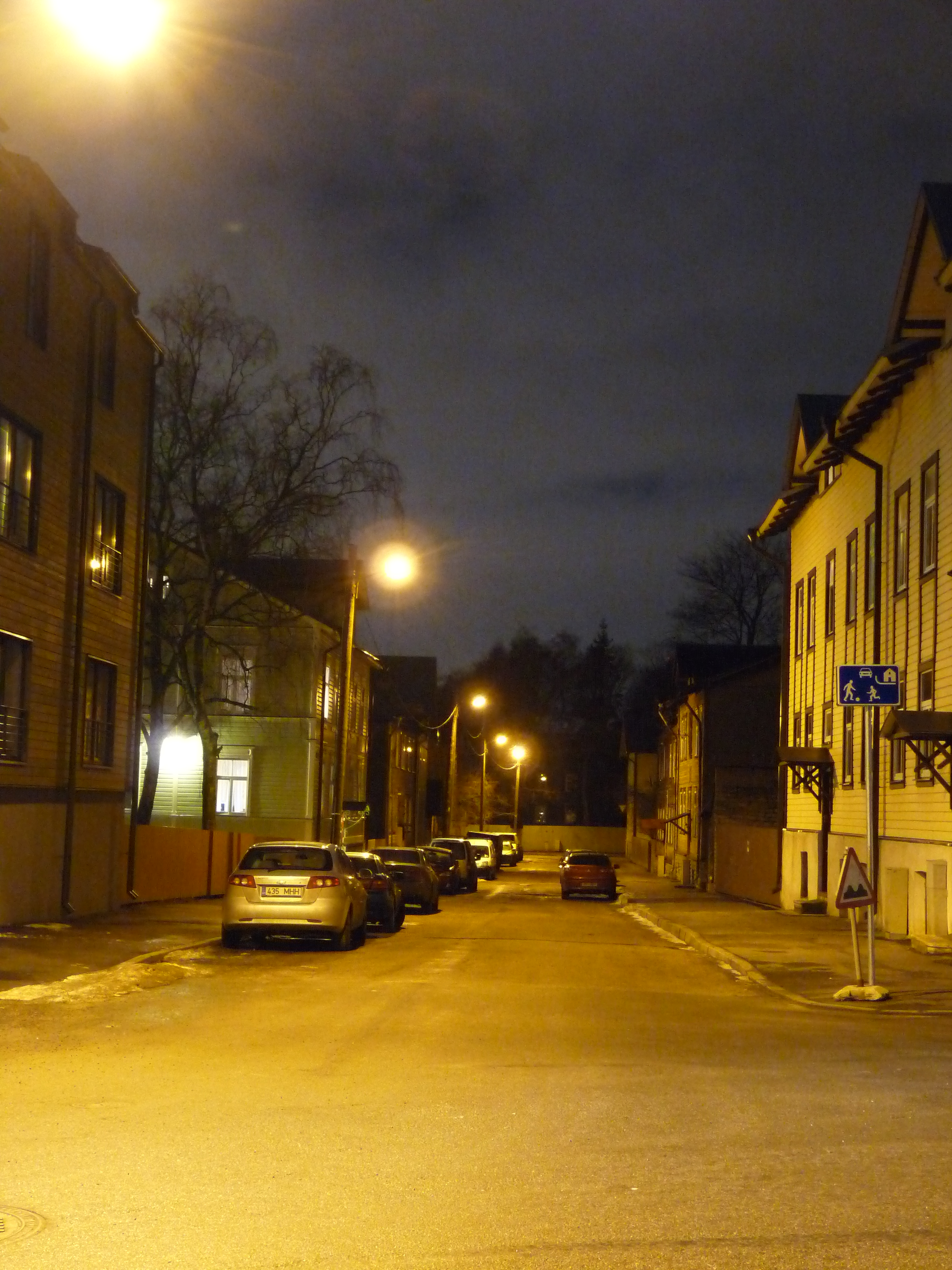 Nabra street in Tallinn, Estonia